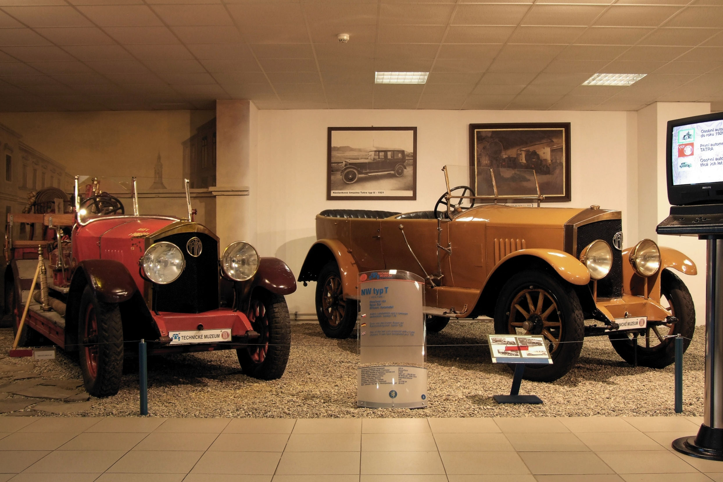 Nesselsdorf T - 2 cars in Tatra Museum